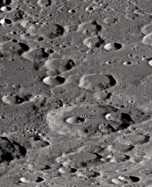 Mutus lunar crater as seen from Earth with satellite craters labeled